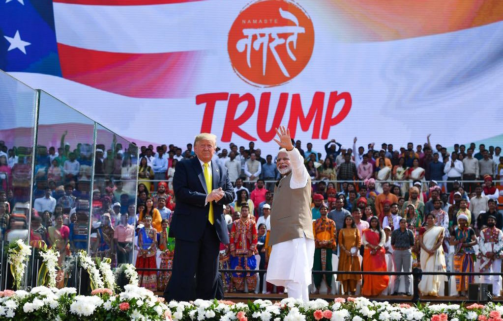 Our two national constitutions both begin with the same three beautiful words: “We the people.” That means that in America and India alike, we honor, respect, trust, empower, and fight for the citizens we proudly serve! Flag of United StatesFlag of India